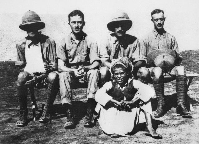 Iraq: Al Basrah, Basra. Informal group portrait of from left; Captain Henry Alloysius Petre of the Australian Flying Corps, Captain Thomas Walter White (later POW) of the Australian Flying Corps, Lieutenant H Christian of the 119th Infantry Indian Army and Lieutenant George Pinnock Merz of the Australian Flying Corps, Officers of the Half Flight and a local boy. Several Australian units served in the Middle East. In May 1915, at the request of the Indian Government, the first Half Flight of the Australian Flying Corps was despatched to Basra where, combining with a similar unit from India, it formed for some time the sole flying force of the expedition. Nearly half of the skilled personnel of this small contingent, officers and mechanics, lost their lives in fighting or as prisoners in Turkey after the surrender of General Townshend's force at Kut el Amara.